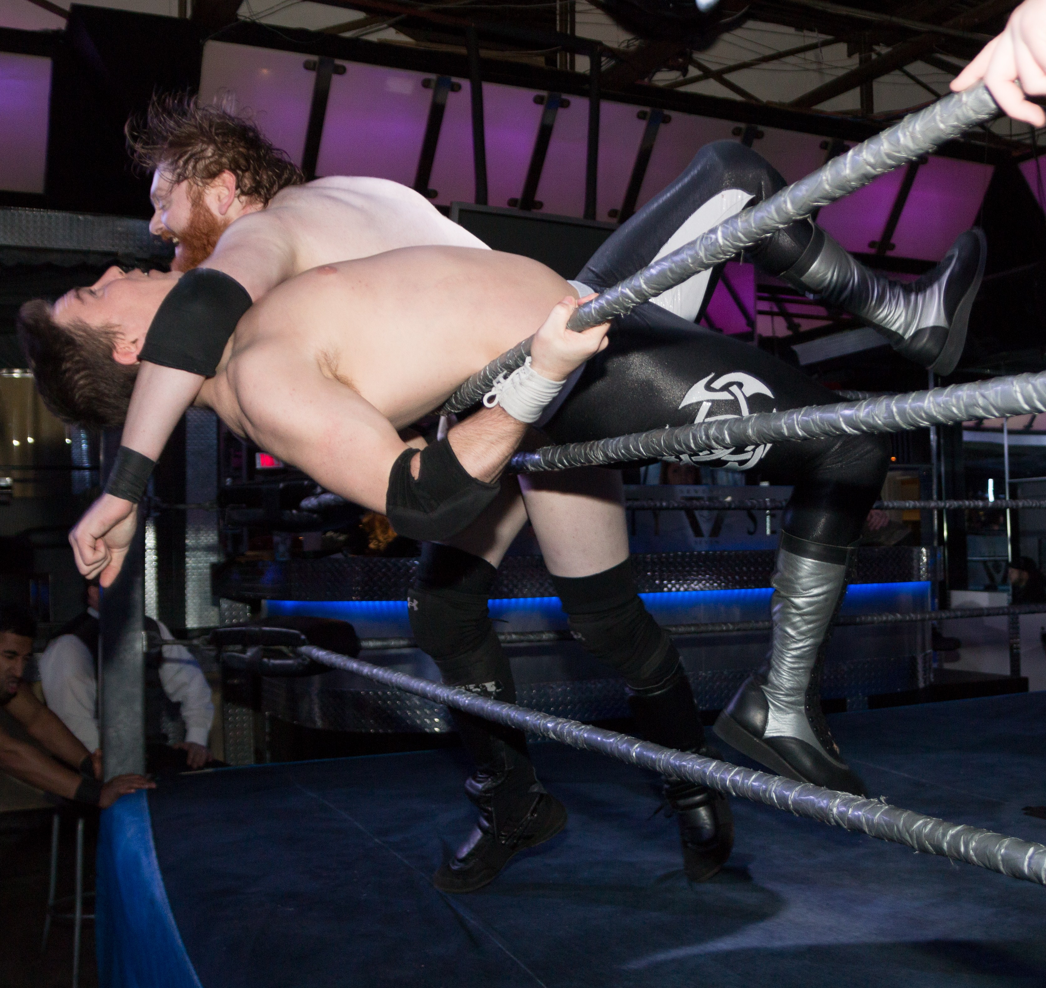 Josh Rogen (behind, with beard) clotheslining his opponent Eric Cairnie over the top rope.